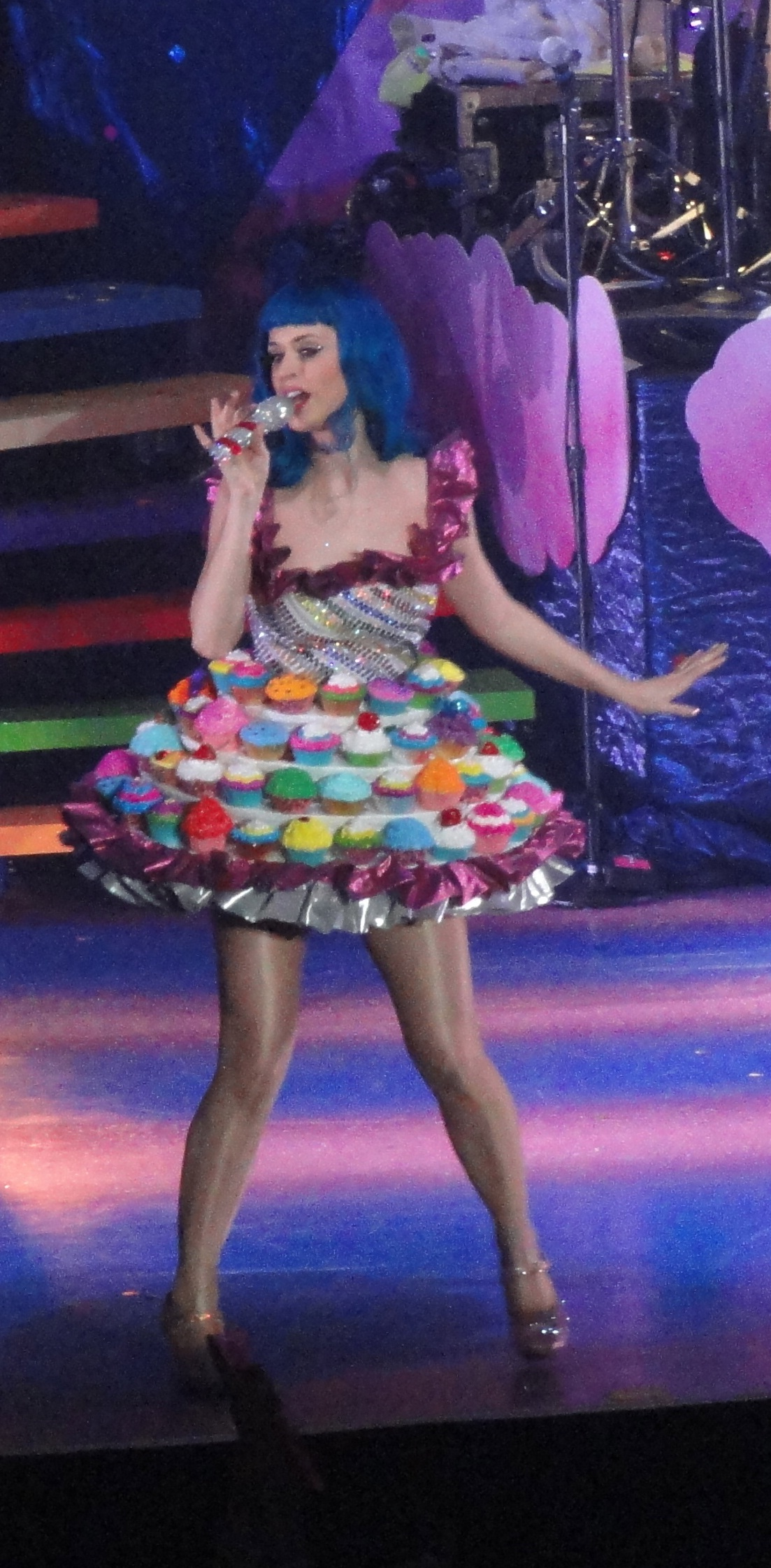 Katy Perry performing "California Gurls" in California Dreams Tour. March 31st, 2011, Bournemouth, England.